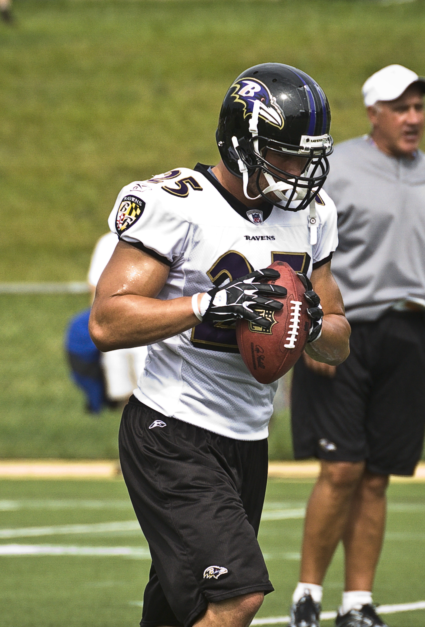 Rookie Safety Tom Zbikowski # 25Ravens Training Camp July 23rd